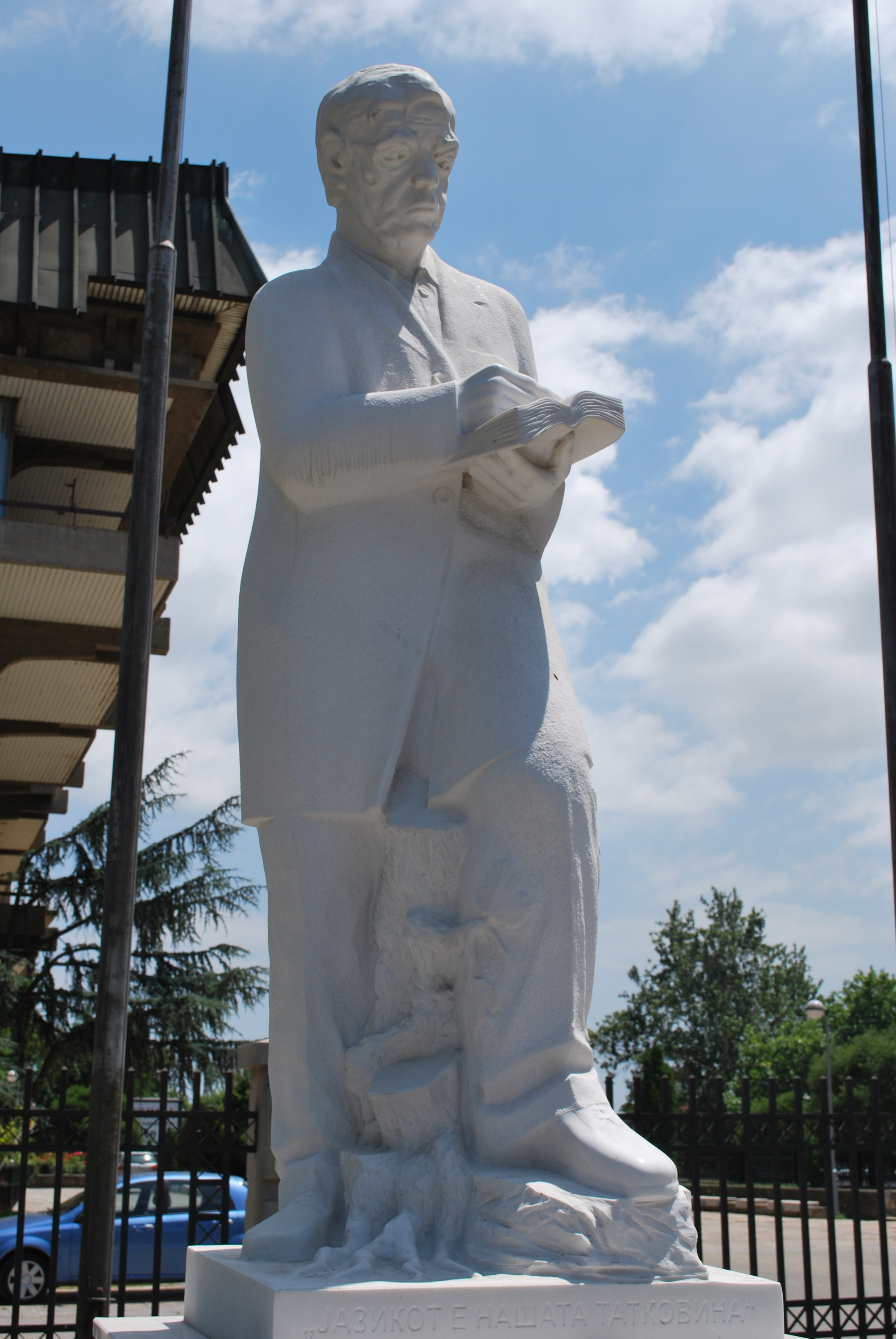 IMonument of Blaže Koneski in Skopje, Macedonia